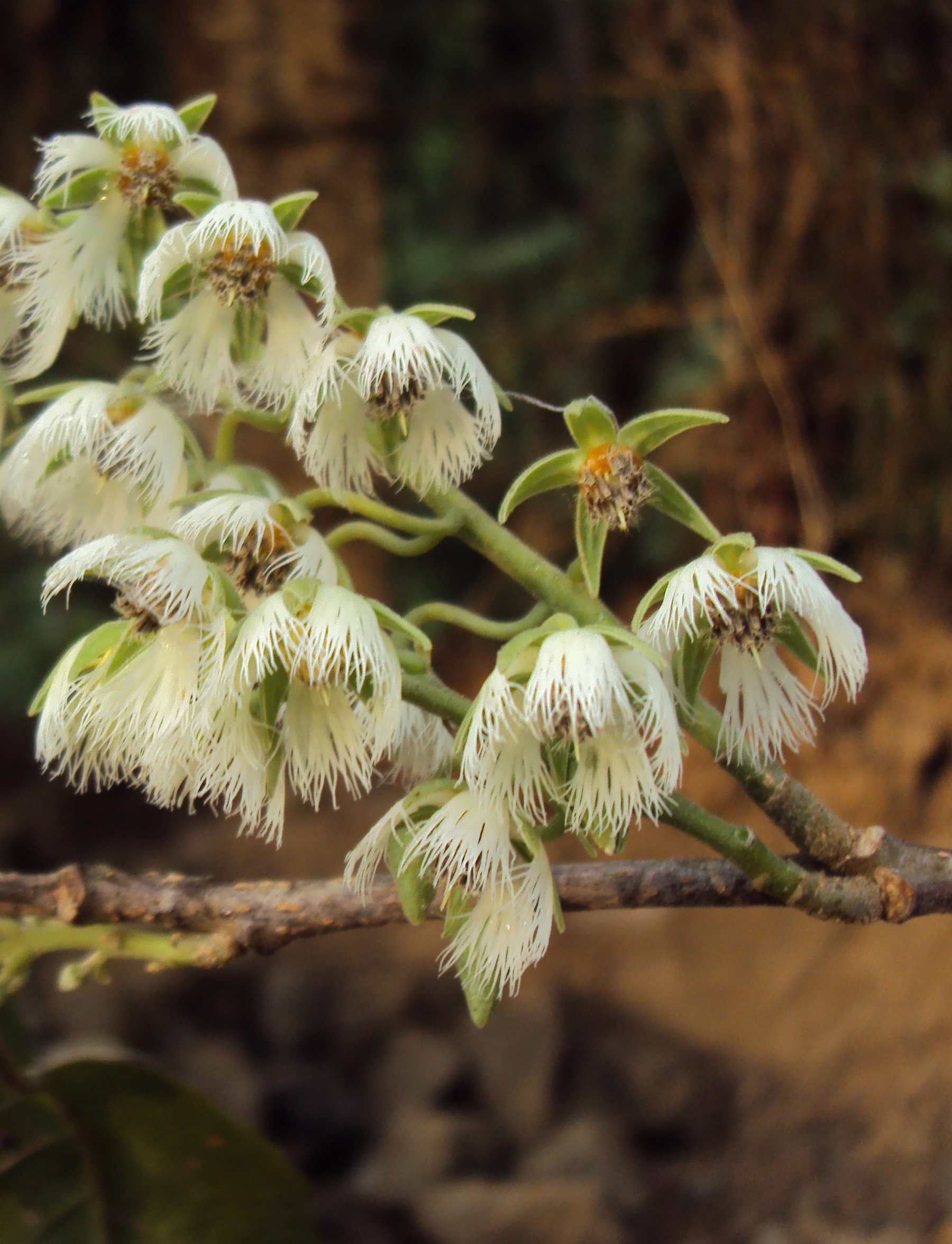 Elaeocarpus serratus